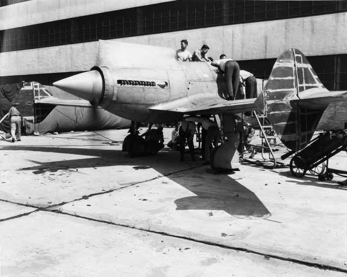 PictionID:47089804 - Catalog:16_008203 - Title:Curtiss-Wright XP-55 Ascender 42-78845 engine run - Filename:16_008203.tif - Ray Wagner was Archivist at the San Diego Air and Space Museum for several years and is an author of several books on aviation --- ---Please Tag these images so that the information can be permanently stored with the digital file.---Repository: San Diego Air and Space Museum